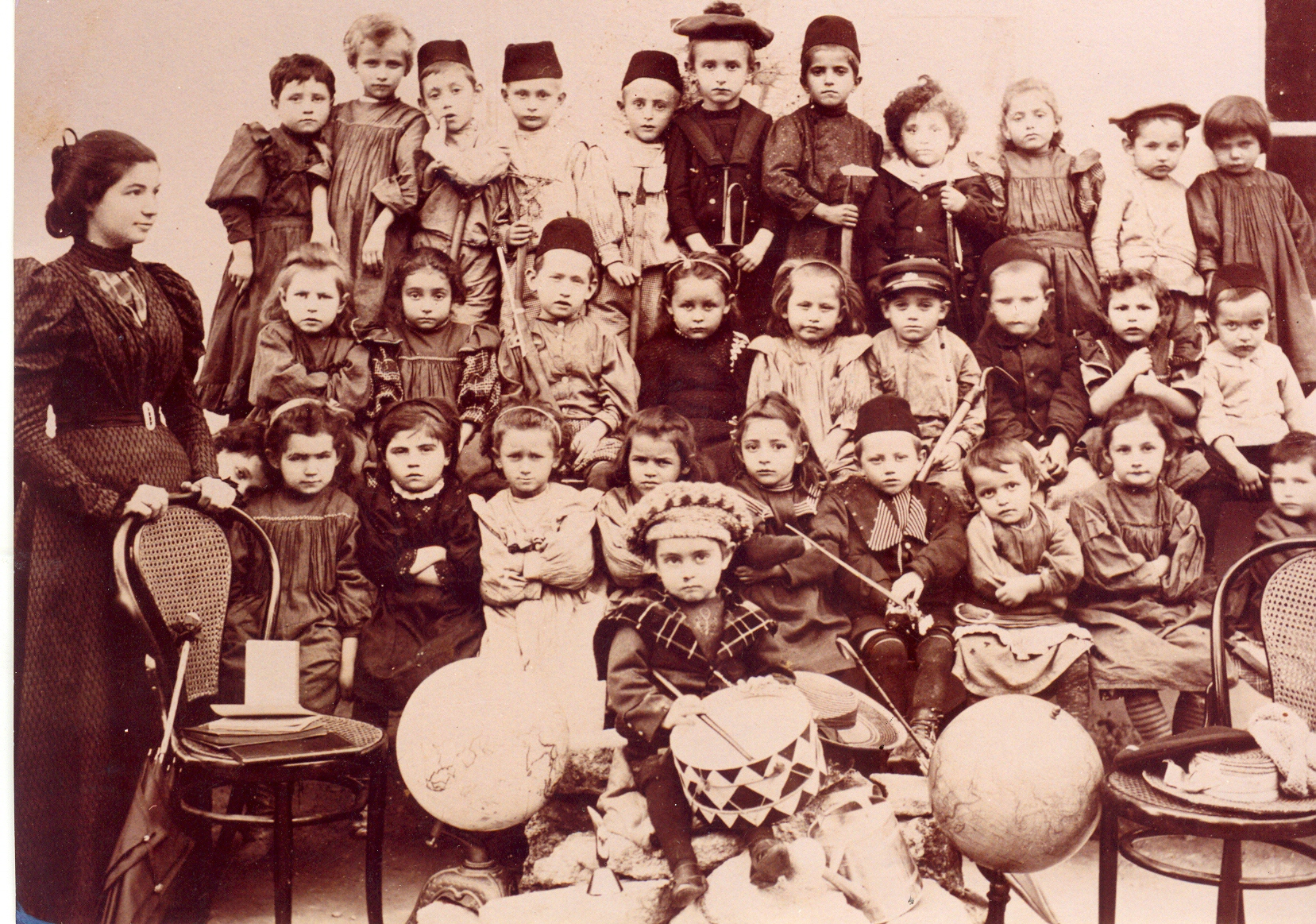 Kindergarden at Rishon-Le'zion, Education in Israel